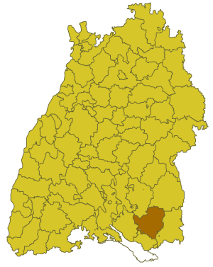 Map of Baden-Württemberg with the former county of Ravensburg before 1973